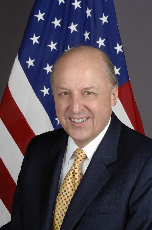 Official U.S. State Department photograph of John Negroponte in March 2007, during his tenure as Deputy Secretary of State.